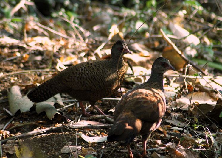 Red Spurfowl (Galloperdix spadicea) Mulshi, Pune-India These beautiful birds are seen in plenty on campus.